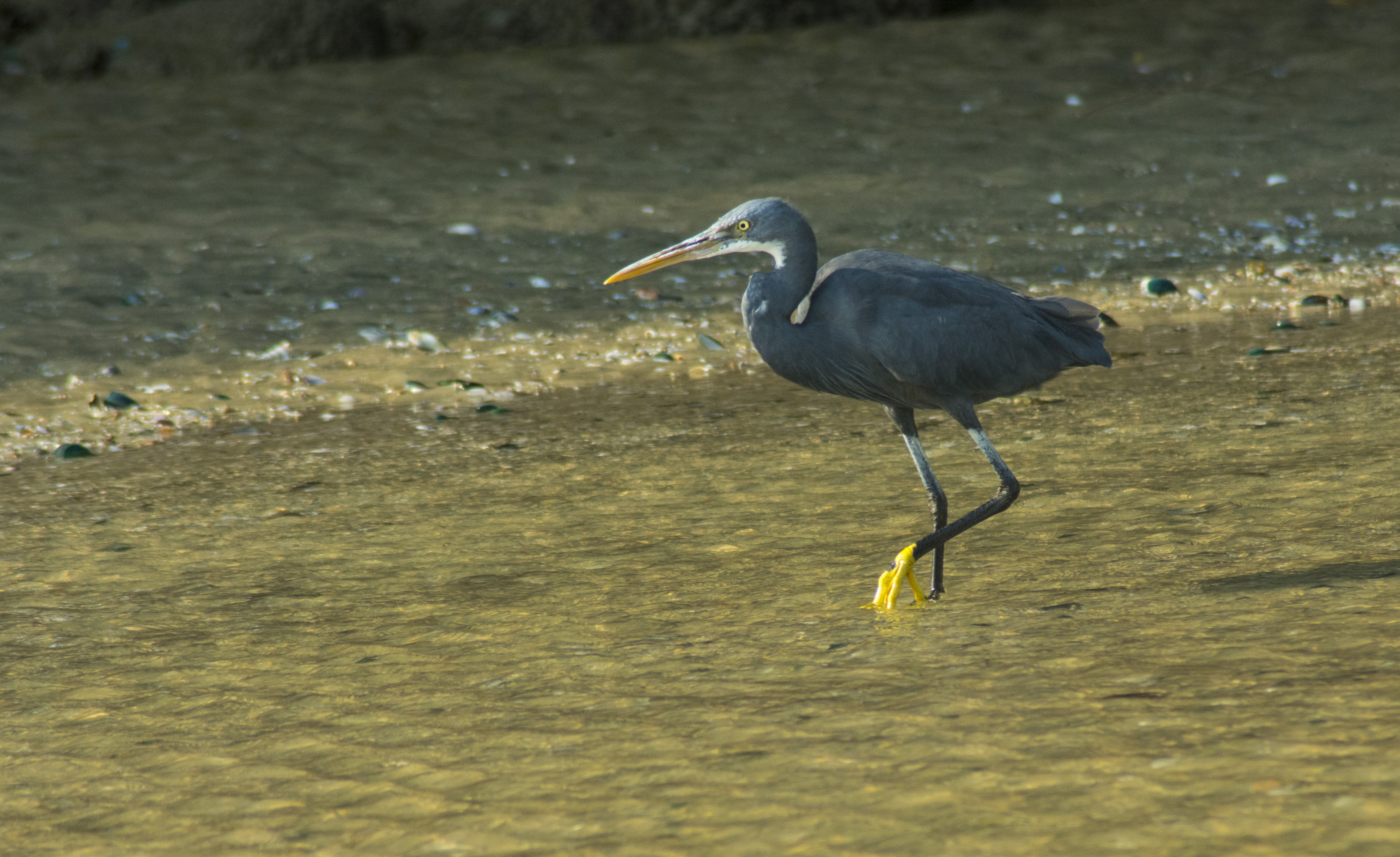 The western reef heron (Egretta gularis) also called the western reef egret, is a medium-sized heron found in southern Europe, Africa and parts of Asia